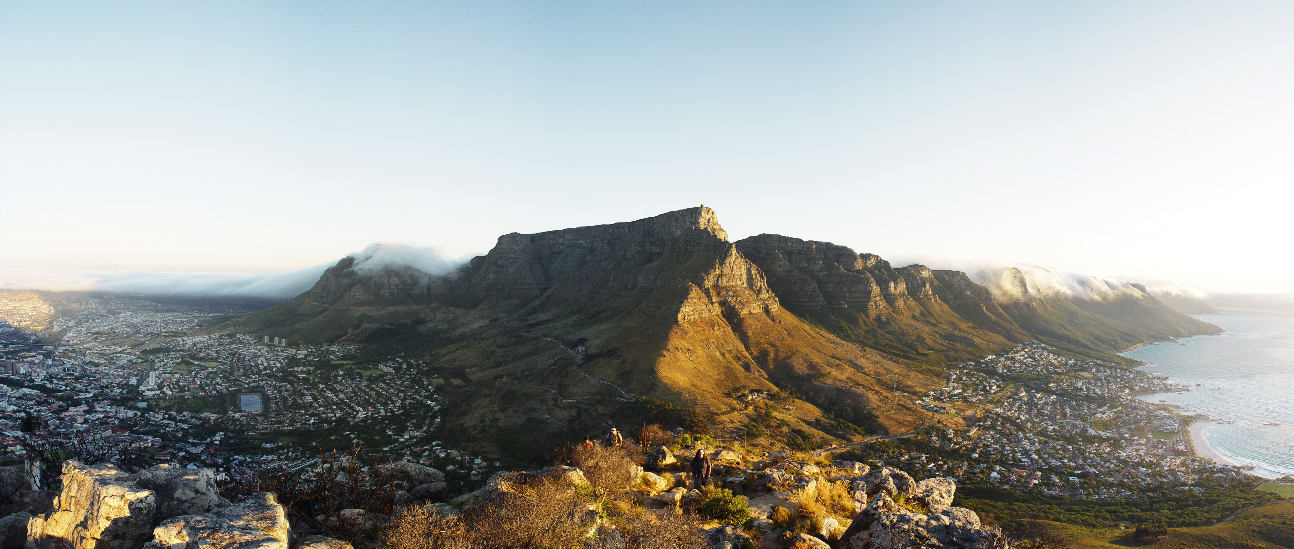 Table Mountain seen from Lion's Head.